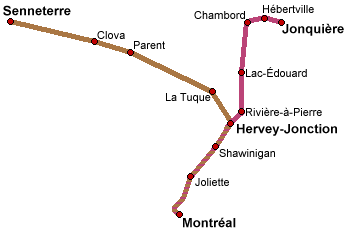 Montreal – Jonquière train and Montreal – Senneterre train combined map. Created by Sergio Ortega based on VIA Rail timetable data valid as of February 2007.